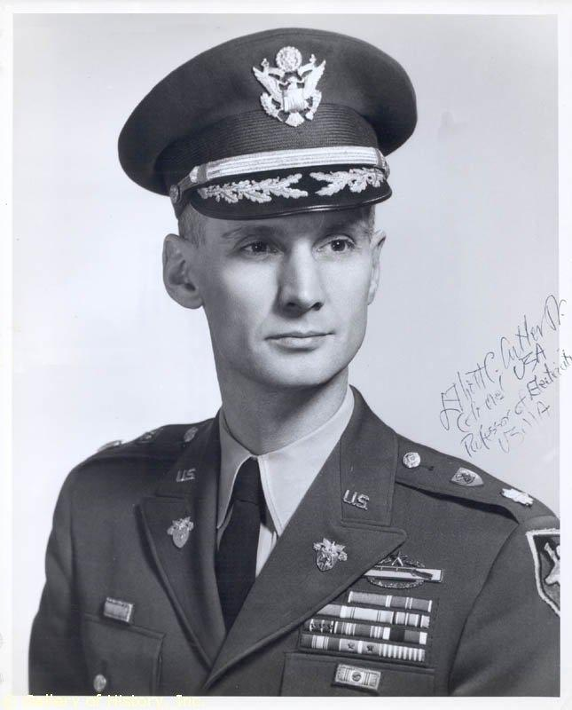 Elliot Carr Cutler, Jr., Ph.D. (June 15, 1920 – November 27, 2007) was an United States Army officer with the rank of Brigadier General. His last military service was as a Head of the Electrical Engineering Department at United States Military Academy from 1961 until 1977.